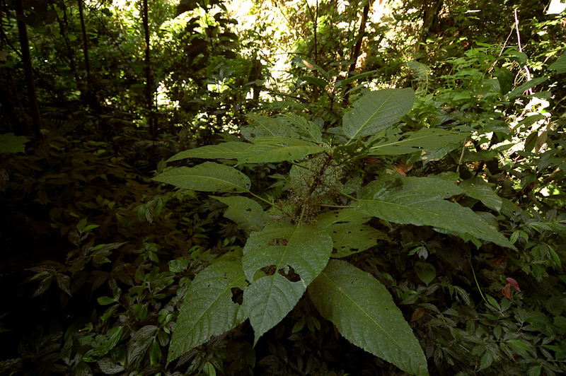 Laportea terminalis (Wight) photographed in Namdapha in arunachal pradesh, India